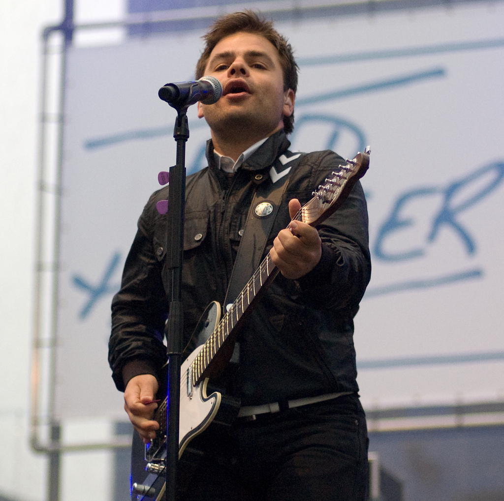 Dutch musician Roel van Velzen on stage in The Hague, during the 2009 Walk the World event to fight hunger.